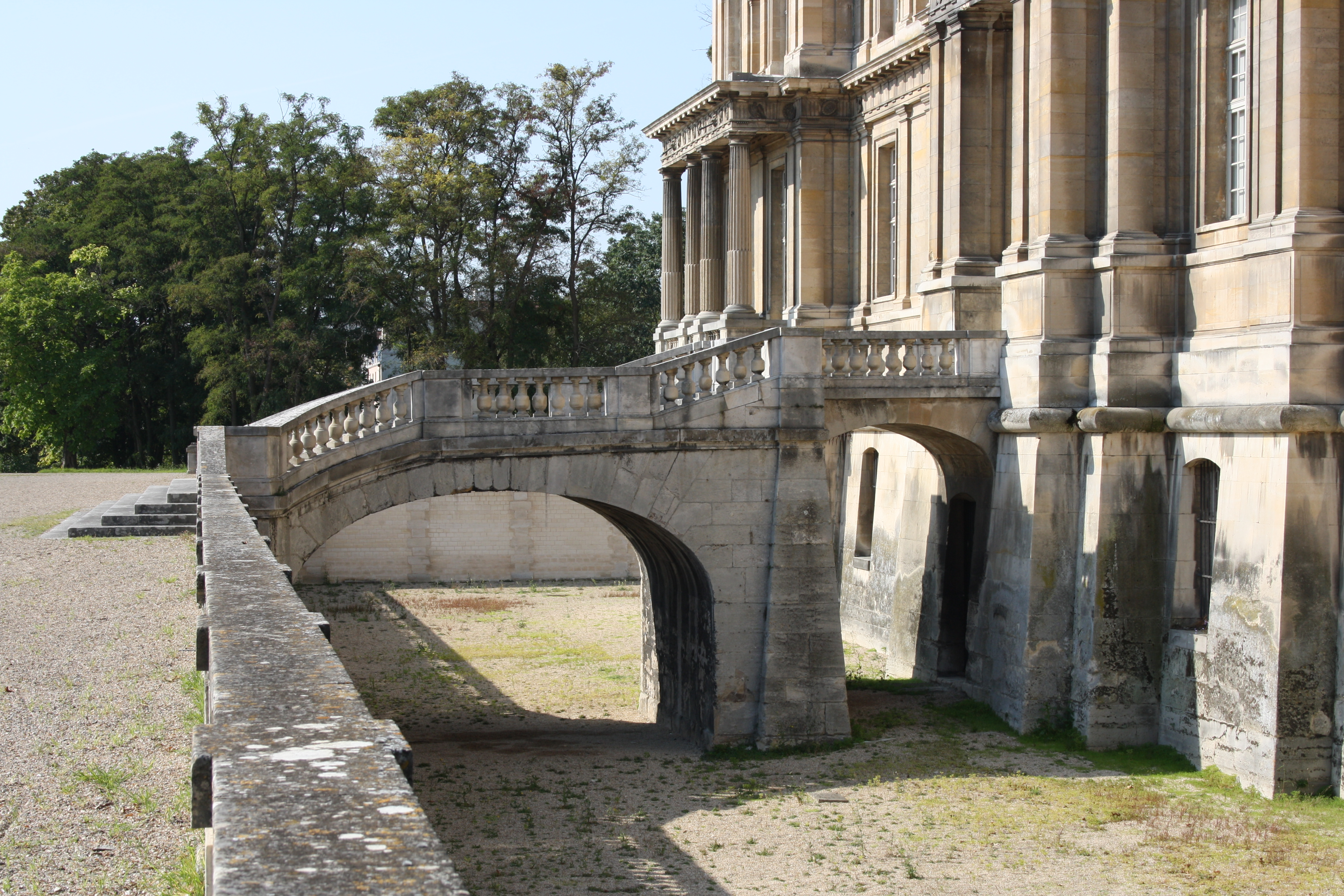 Maisons castle in Maisons-Laffitte, France.